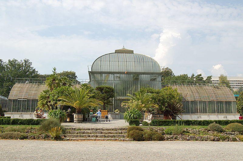 Botanical garden of Geneva